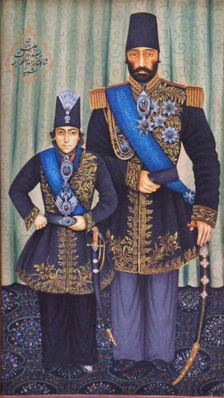 Aziz Khan painting by Sardar Mukri, next to Muzaffar al-Din Shah. This work is in the Louvre Museum in Paris